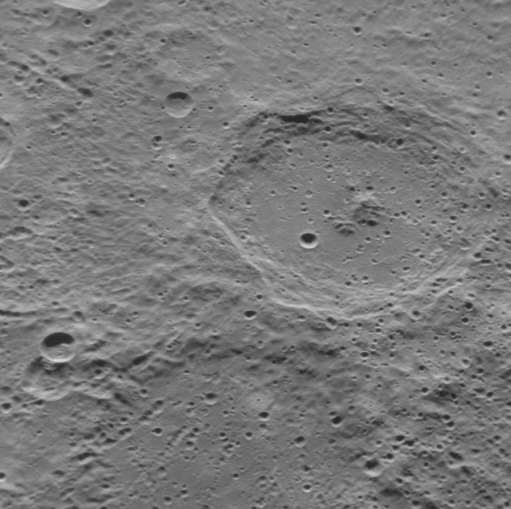 Oblique view of Mahler crater on Mercury. MESSENGER Narrow Angle Camera image. North is at right. Width is approximately 184 km at bottom. Emission Angle: 37.6 Incidence Angle: 67.1 Latitude: -20.7 Longitude: 341.5 Phase Angle: 104.6